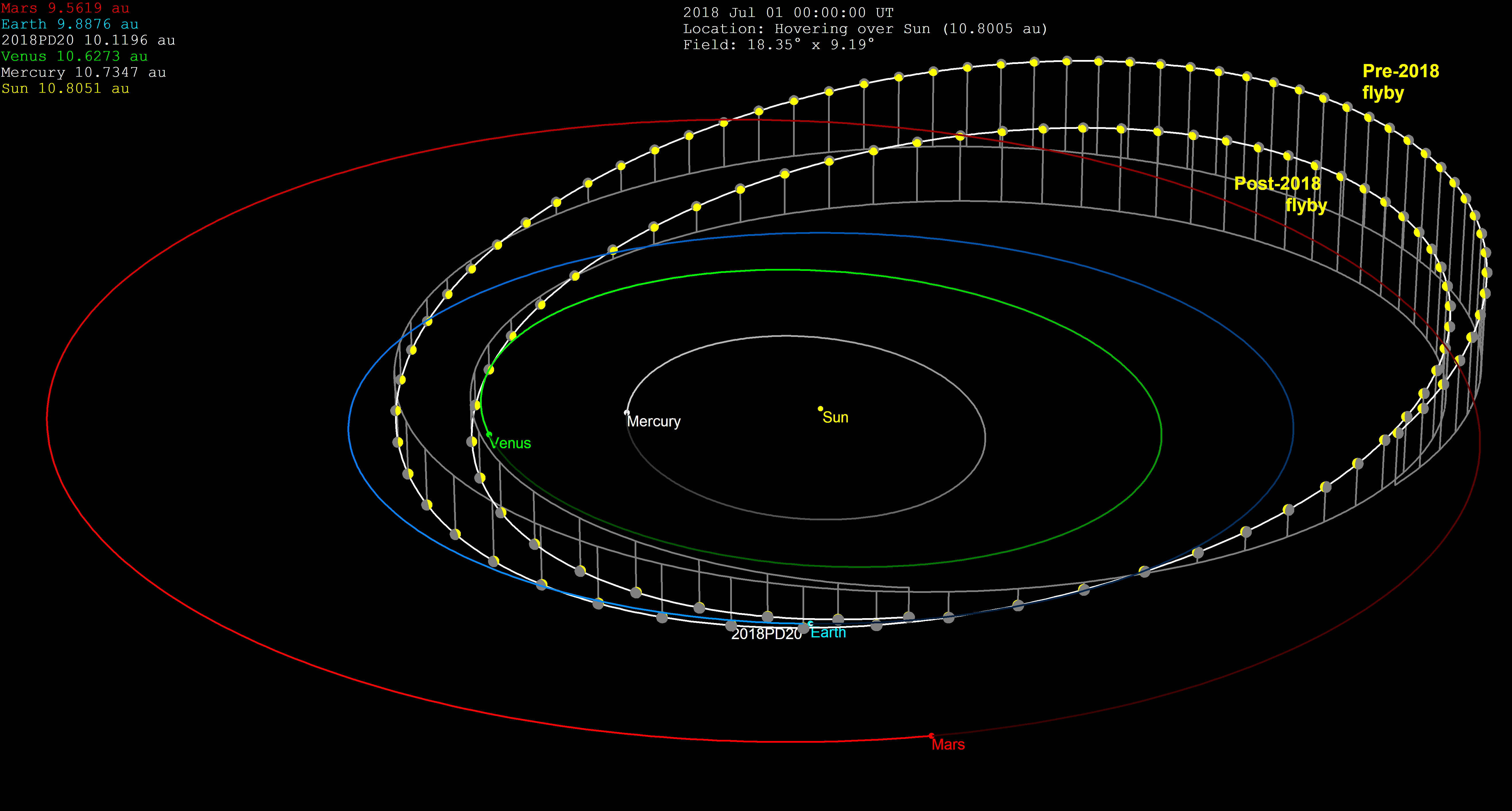 Orbital path of en:2017 PD20 with 7-day motion markers, [1]